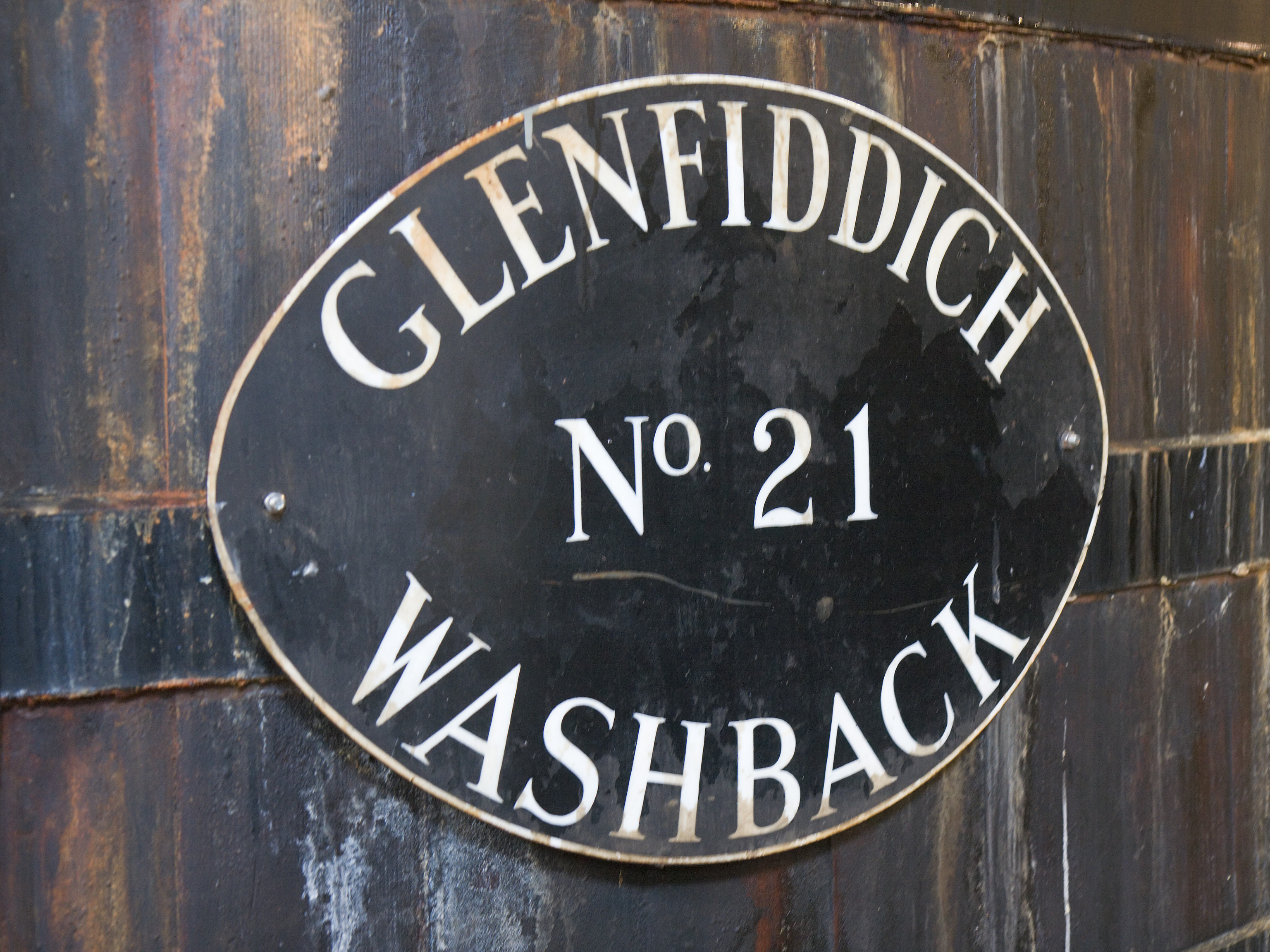 Label on the washback tun of Glenfiddich destillery; Dufftown, Moray, Scotland